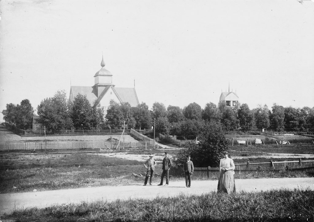 People outside Piteå Town Church, from 1686. The church is one of the oldest wooden churches in Norrland (northern Sweden). Format: Albumen print